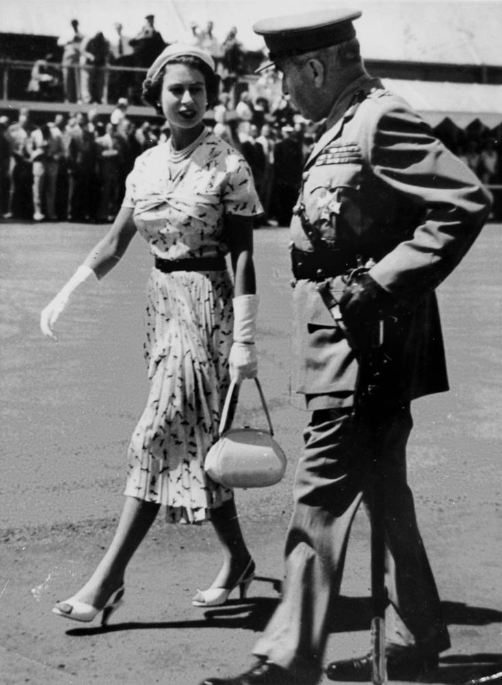 Queensland's Governor says good-bye to Queen Elizabeth II after her visit in March 1954 Sir John Lavarack, Governor of Queensland, says good-bye to The Queen on Thursday 18 March 1954, and escorts her to the Royal Aeroplane at Eagle Farm Airport at the end of her Queensland journey. (Description supplied with photograph.).